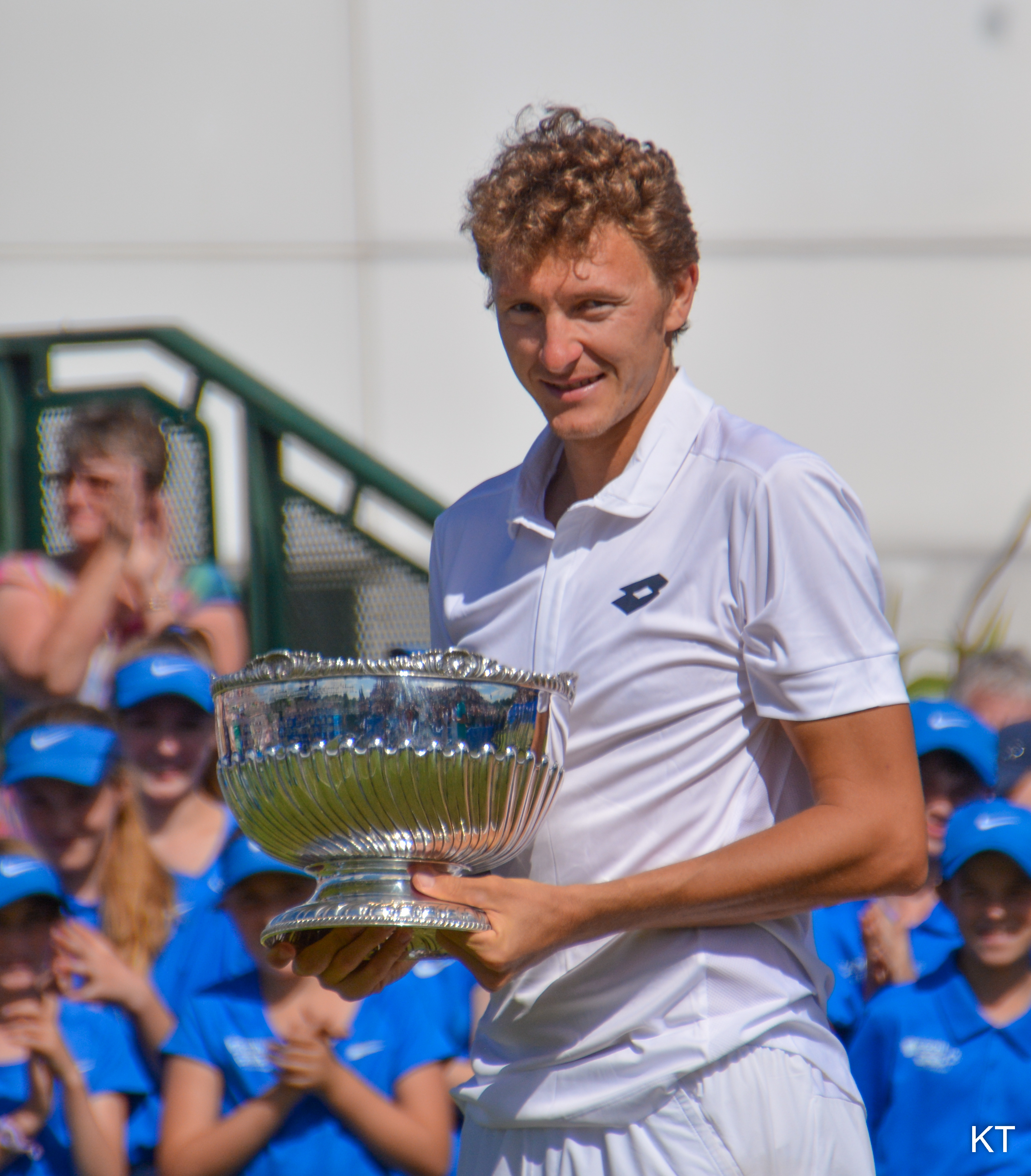 Denis Istomin, Winner of the Aegon Open, Nottingham 2015.